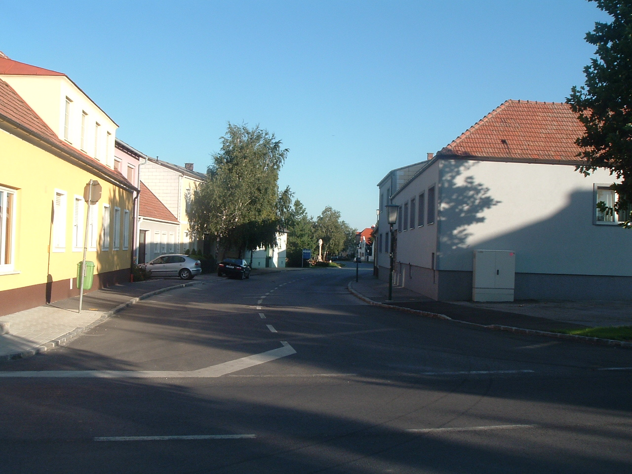 Winden am See, Austria